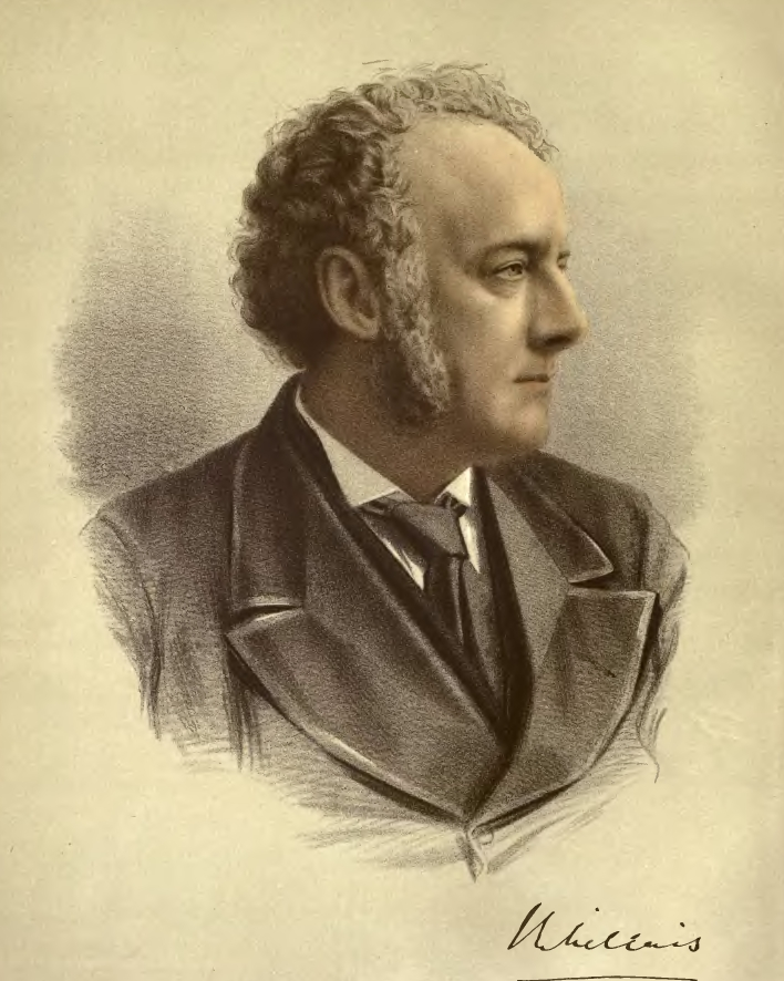 British artist John Everett Millais